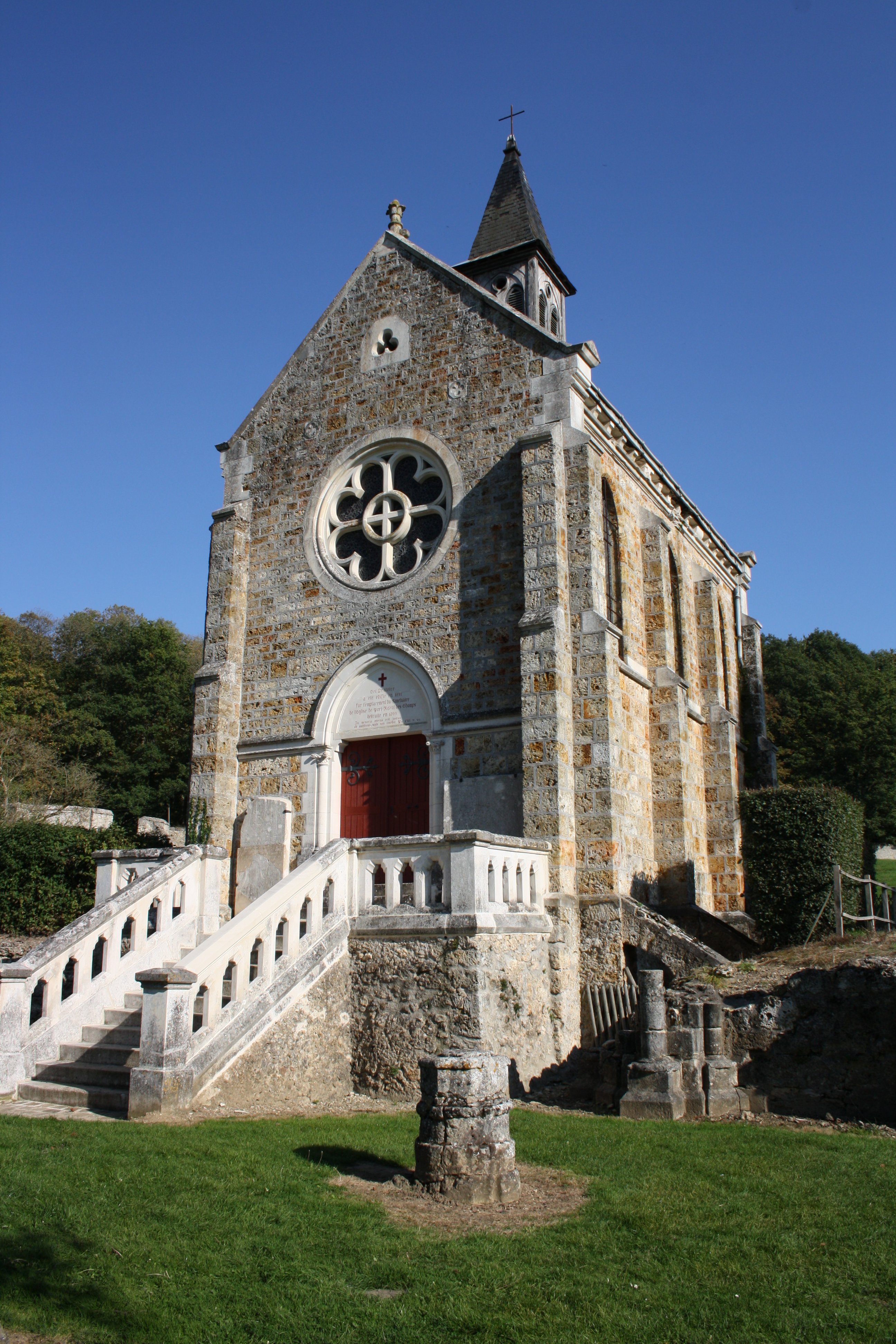 Port-Royal des Champs (Royal harbor in the fields) in Magny-les-Hameaux, France. This building is en partie classé, en partie inscrit au titre des Monuments Historiques. It is indexed in the Base Mérimée, a database of architectural heritage maintained by the French Ministry of Culture, under the references PA00087488 and PA00087487 . Object location48° 44′ 40.32″ N, 2° 00′ 58.29″ E